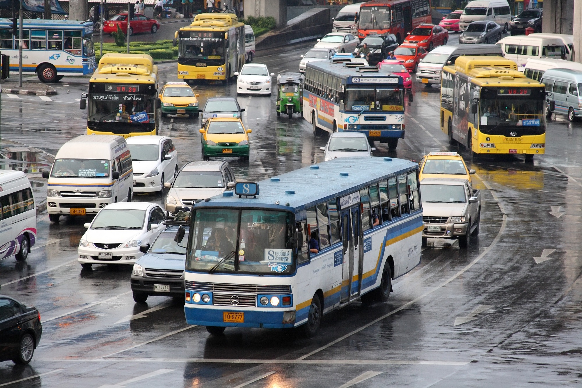 Old Mercedes-Benz bus in Bangkok, Thailand